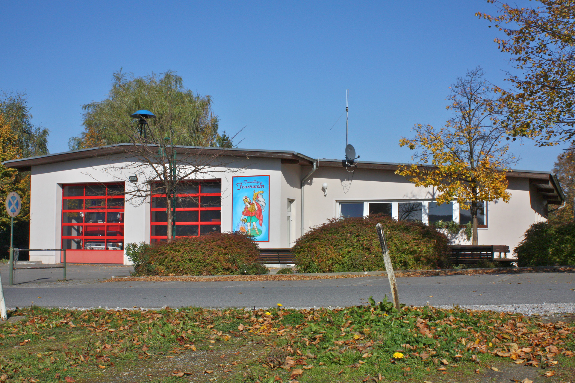 Volunteer fire department in Frankenthal in the district of Bautzen in Saxony, Germany.